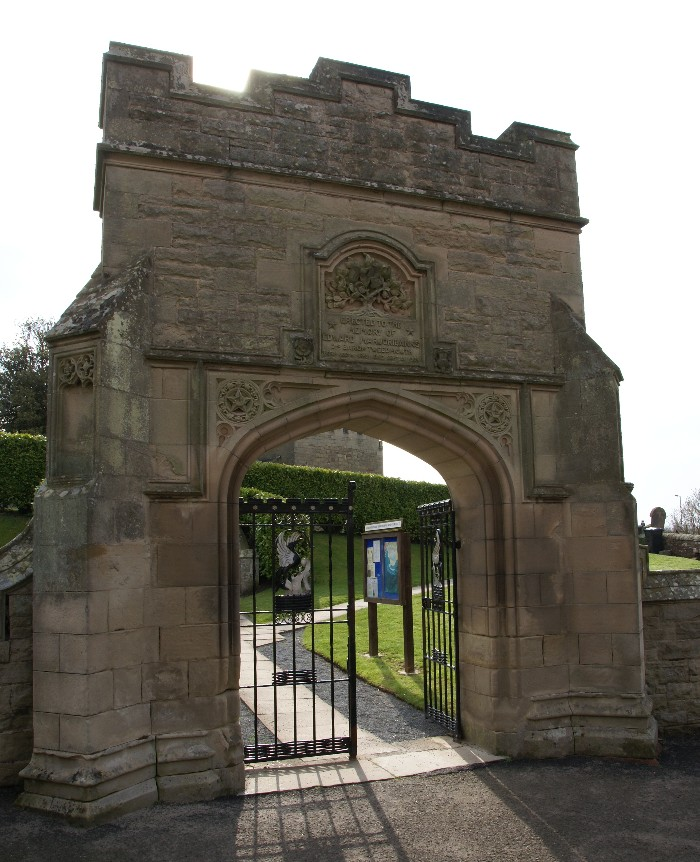 Chirnside Parish Church, Chirnside, Scottish Borders, Scotland